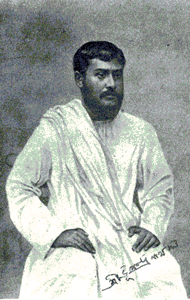 Bhupendranath Datta (brother of Swami Vivekananda). This image is of his young age when he was closely associated with the Jugantar movement, serving as the editor of Jugantar Patrika till his arrest and imprisonment in 1907. In his later revolutionary career, he was privy to the Indo-German Conspiracy.